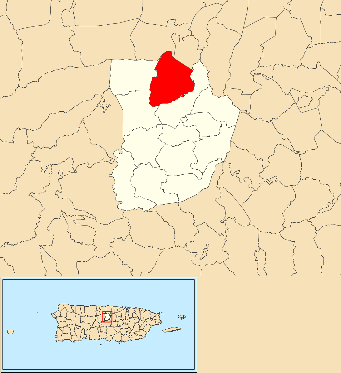 Fránquez, Morovis, Puerto Rico locator map